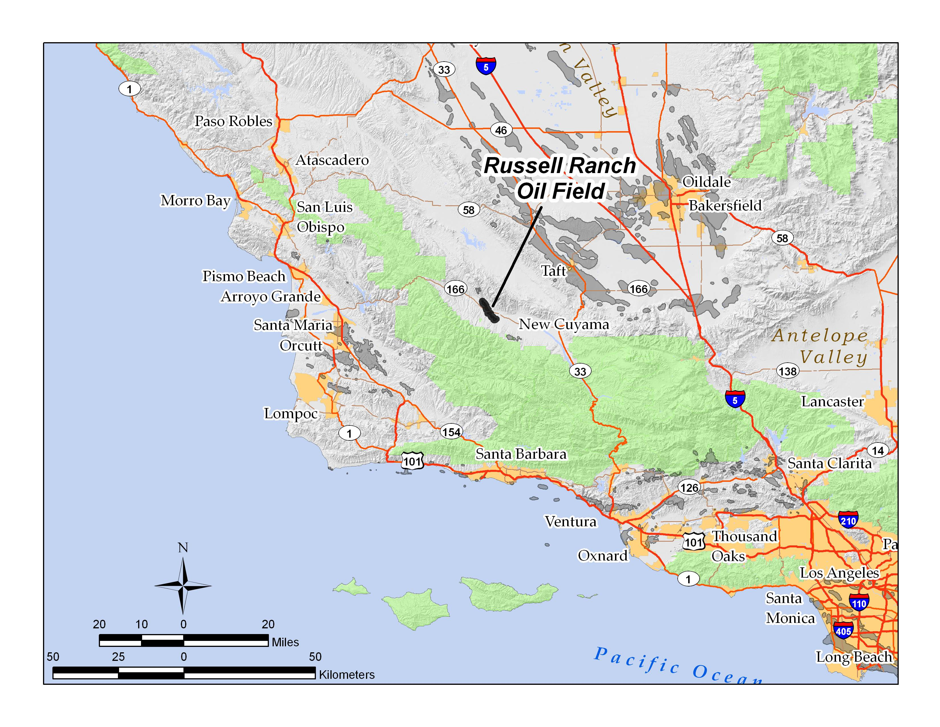 Location of Russell Ranch field; own work, in ArcGIS 9.3, using public domain data; GFDL/equiv